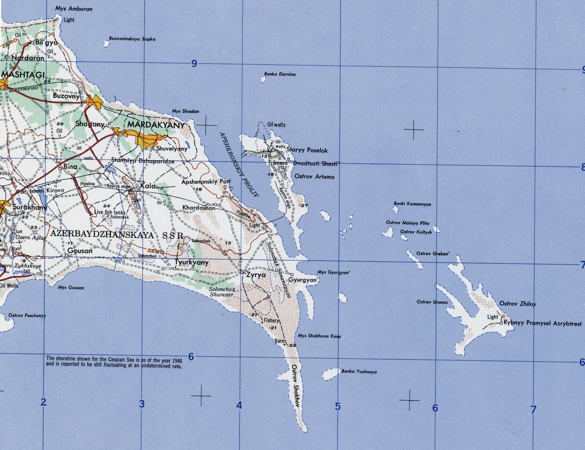 Absheron peninsula, Pirallahi Island, Chilov Island, etc. on the topographic map. (U.S. Army Map Service) 1954